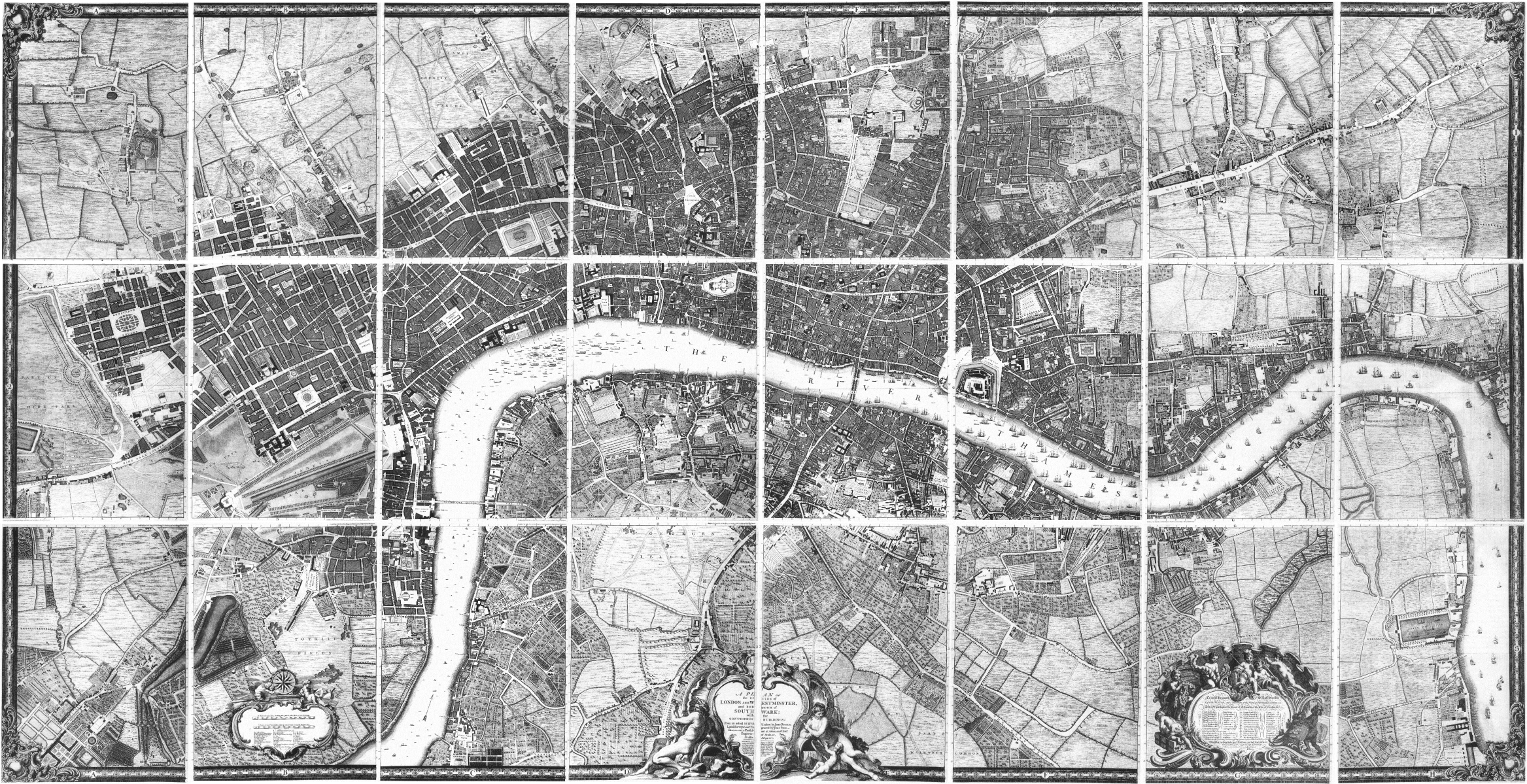 Combined image of 24 images separately on Commons